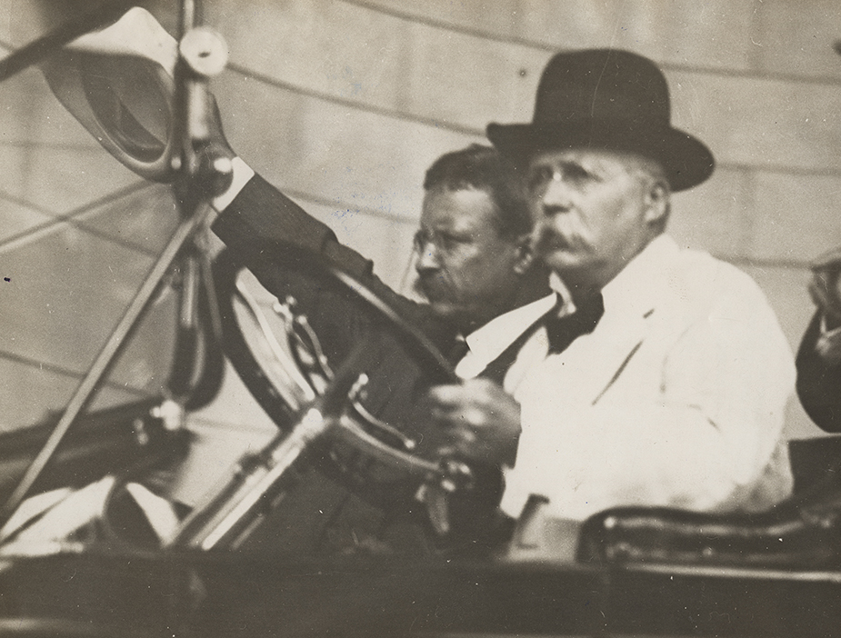 Title: [Colonel President Theodore Roosevelt Arriving at Union Station] Creator: Underwood & Underwood Date: May 26, 1914 Part of: Doris A. and Lawrence H. Budner Theodore Roosevelt Photograph Collection Place: Washington, D.C. Description: Photograph of former President Theodore Roosevelt in the car of Dr. Clinton Hart Merriam, biologist and naturalist, at Union Station, Washington D.C. The former President was headed to the new National Museum (now the National Museum of Natural History) to view a new exhibit he helped sponsor. Source: Smithsonian, Roosevelt Rhinoceros, Physical Description: 1 photographic print: gelatin silver; 17 x 22 cm File: ag1984_0324_25_3r_unionstation_opt.jpg Rights: Please cite the Doris A. and Lawrence H. Budner Theodore Roosevelt Collection, DeGolyer Library, Southern Methodist University when using this file. A high-resolution version of this file may be obtained for a fee. For details see the web page. For other information, . For more information and to view the image in high resolution, View the Doris A. and Lawrence H. Budner Collection on Theodore Roosevelt collection